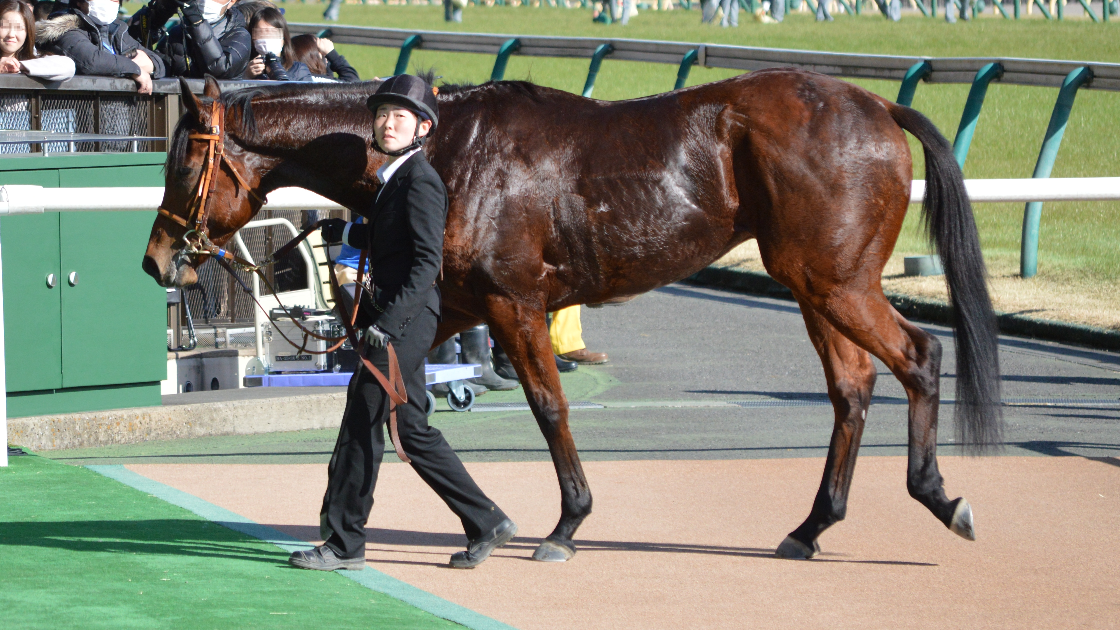 Japanese race horse Cafe pharoah at Tokyo racecourse.